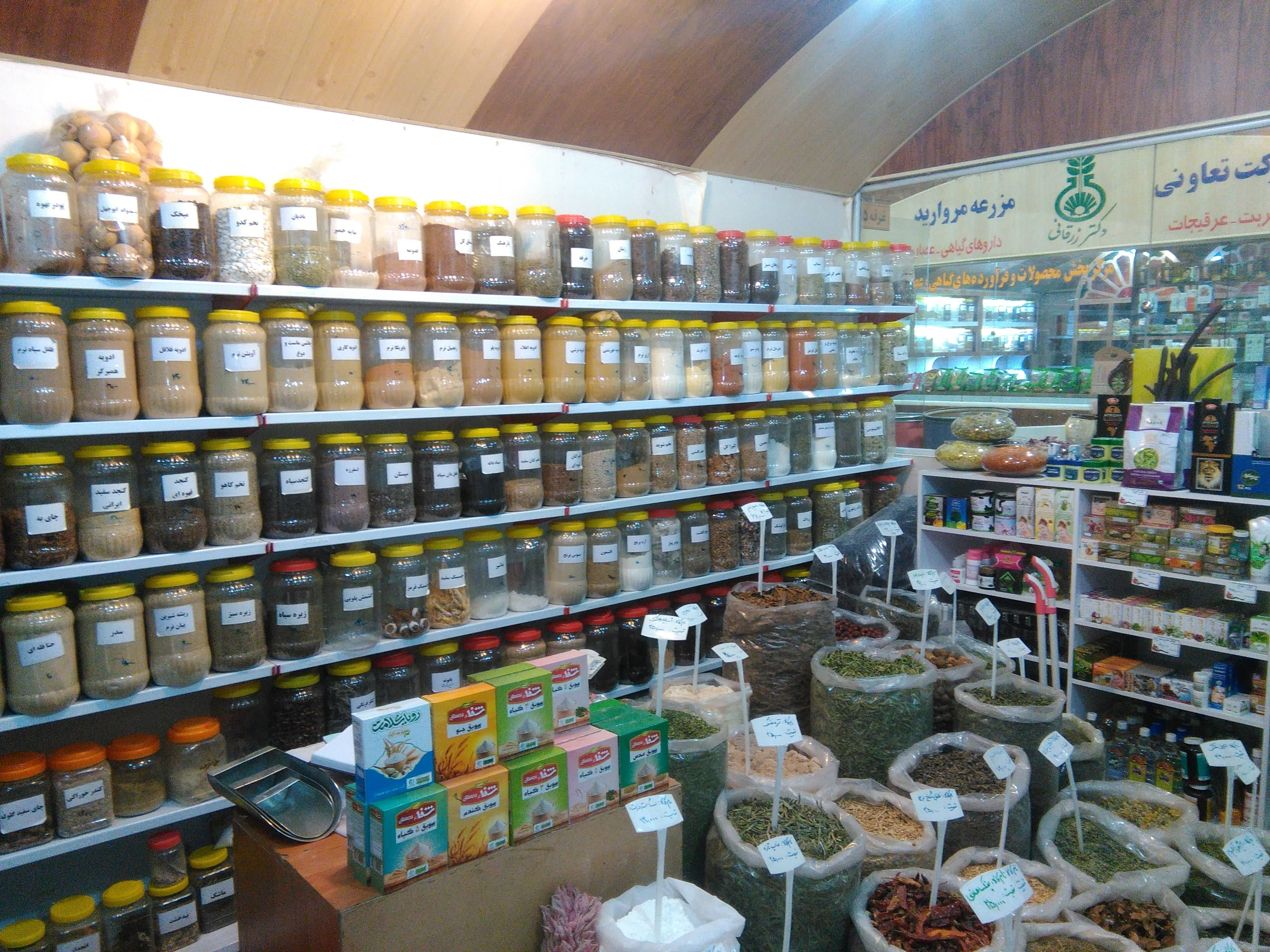 An iran Herbarge Spice Shop in the Esfahan